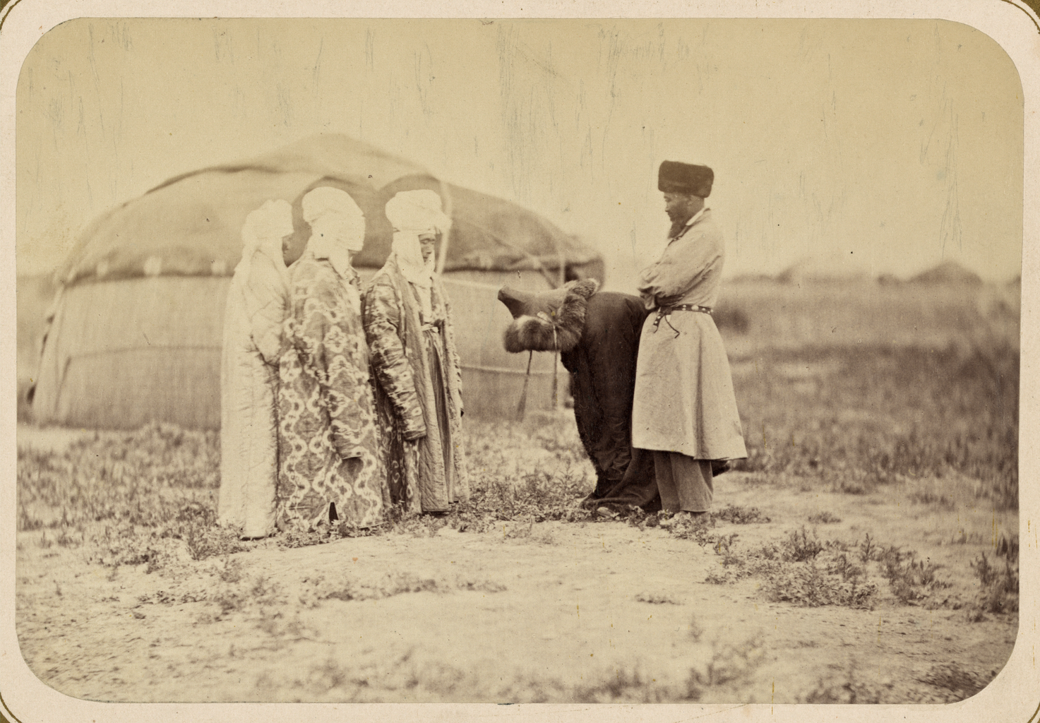 This photograph is from the ethnographical part of Turkestan Album, a comprehensive visual survey of Central Asia undertaken after imperial Russia assumed control of the region in the 1860s. Commissioned by General Konstantin Petrovich von Kaufman (1818–82), the first governor-general of Russian Turkestan, the album is in four parts spanning six volumes: “Archaeological Part” (two volumes); “Ethnographic Part” (two volumes); “Trades Part” (one volume); and “Historical Part” (one volume). The principal compiler was Russian Orientalist Aleksandr L. Kun, who was assisted by Nikolai V. Bogaevskii. The album contains some 1,200 photographs, along with architectural plans, watercolor drawings, and maps. The “Ethnographic Part” includes 491 individual photographs on 163 plates. The photographs show individuals representing the different peoples of the region (Plates 1–33); daily life and rituals (Plates 34–91); and views of villages and cities, street vendors, and commercial activities (Plates 92–163). Brides; Ethnographic photographs; Grooms (Weddings); Kyrgyz; Photographic surveys; Rites and ceremonies; Weddings